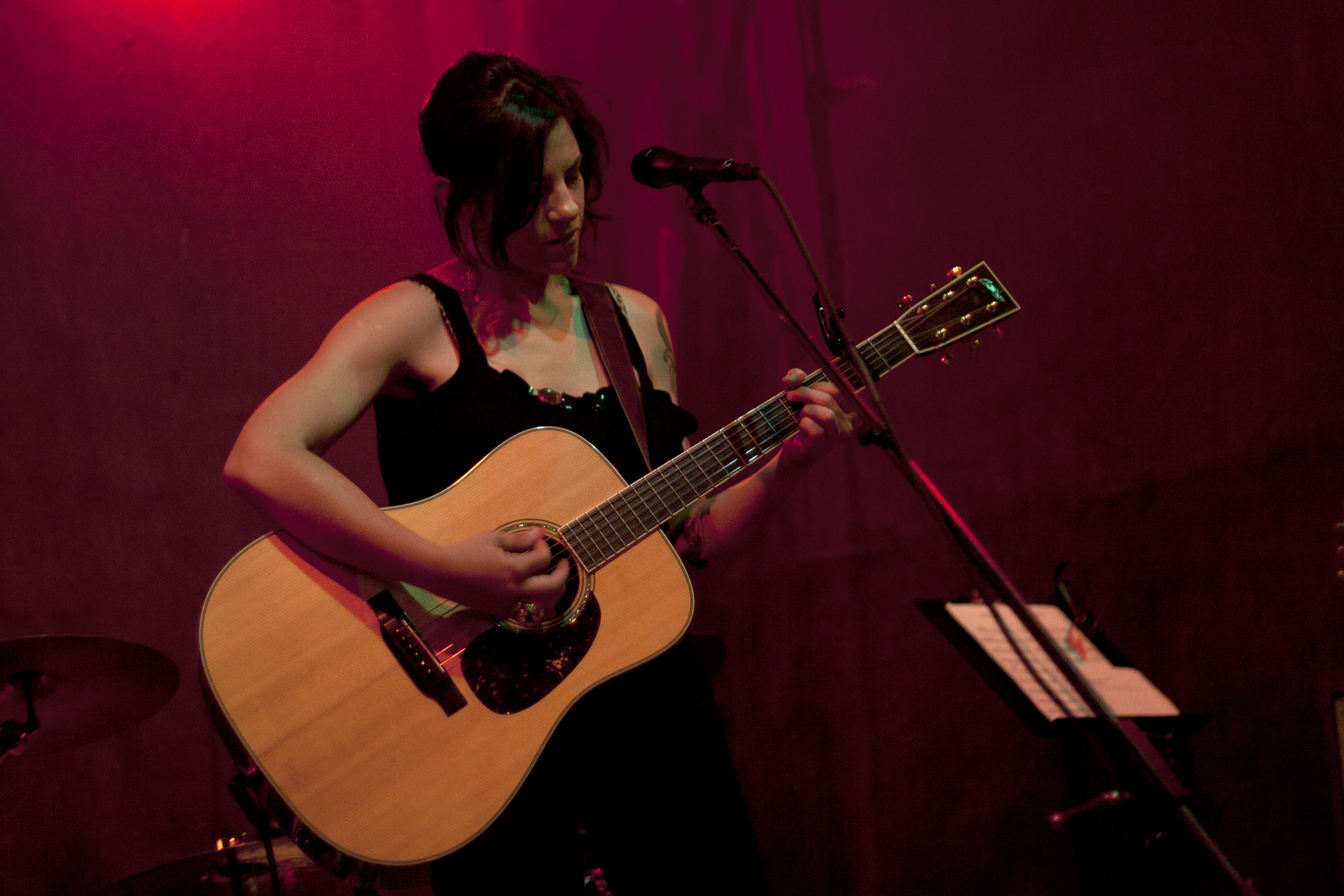 Terra Naomi performing at the Hotel Utah Saloon in San Francisco, CA. Blog post link for more information about the picture